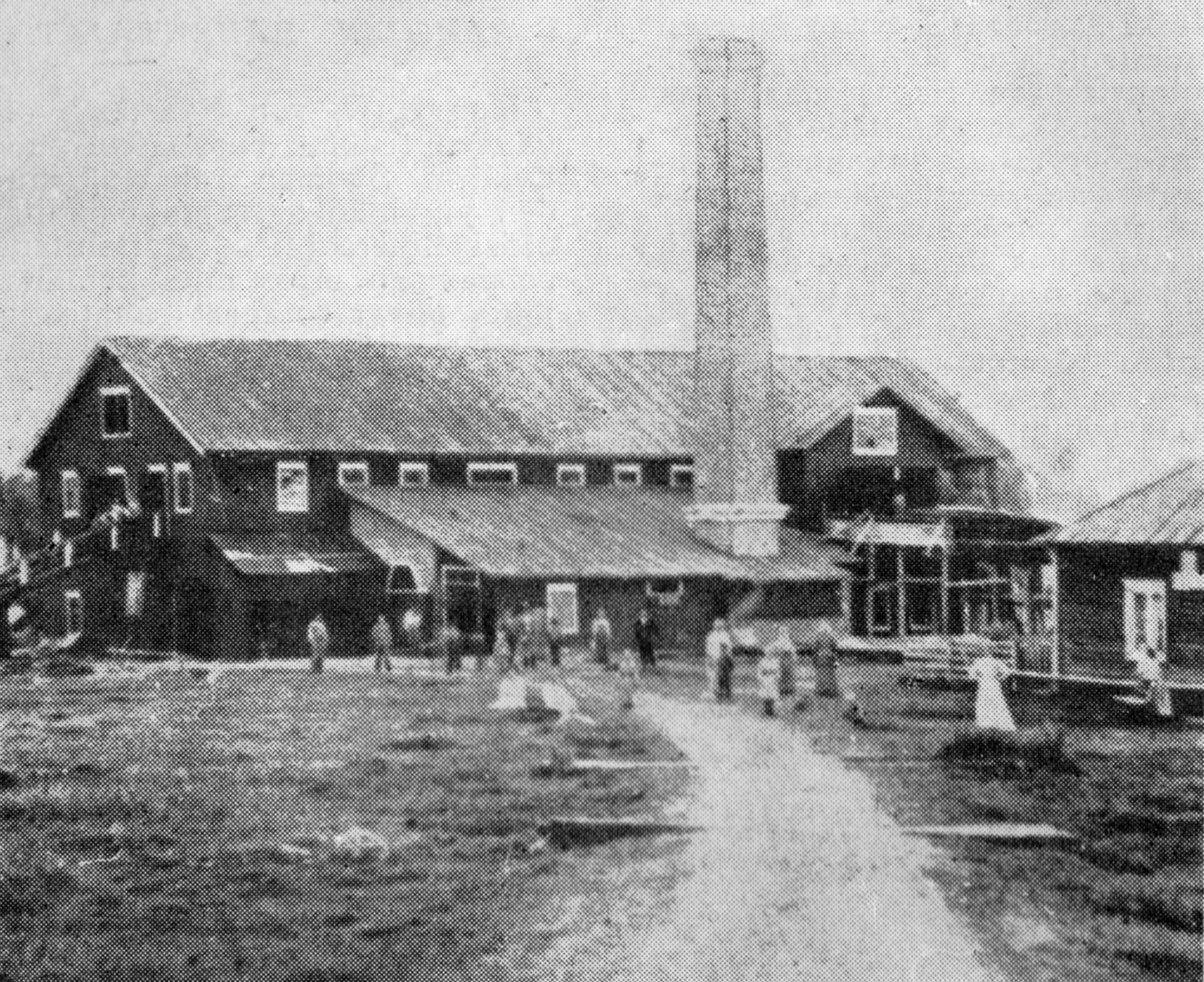 The Maunu sawmill in Haukipudas operated in 1863-1908. Photograph from 1895.